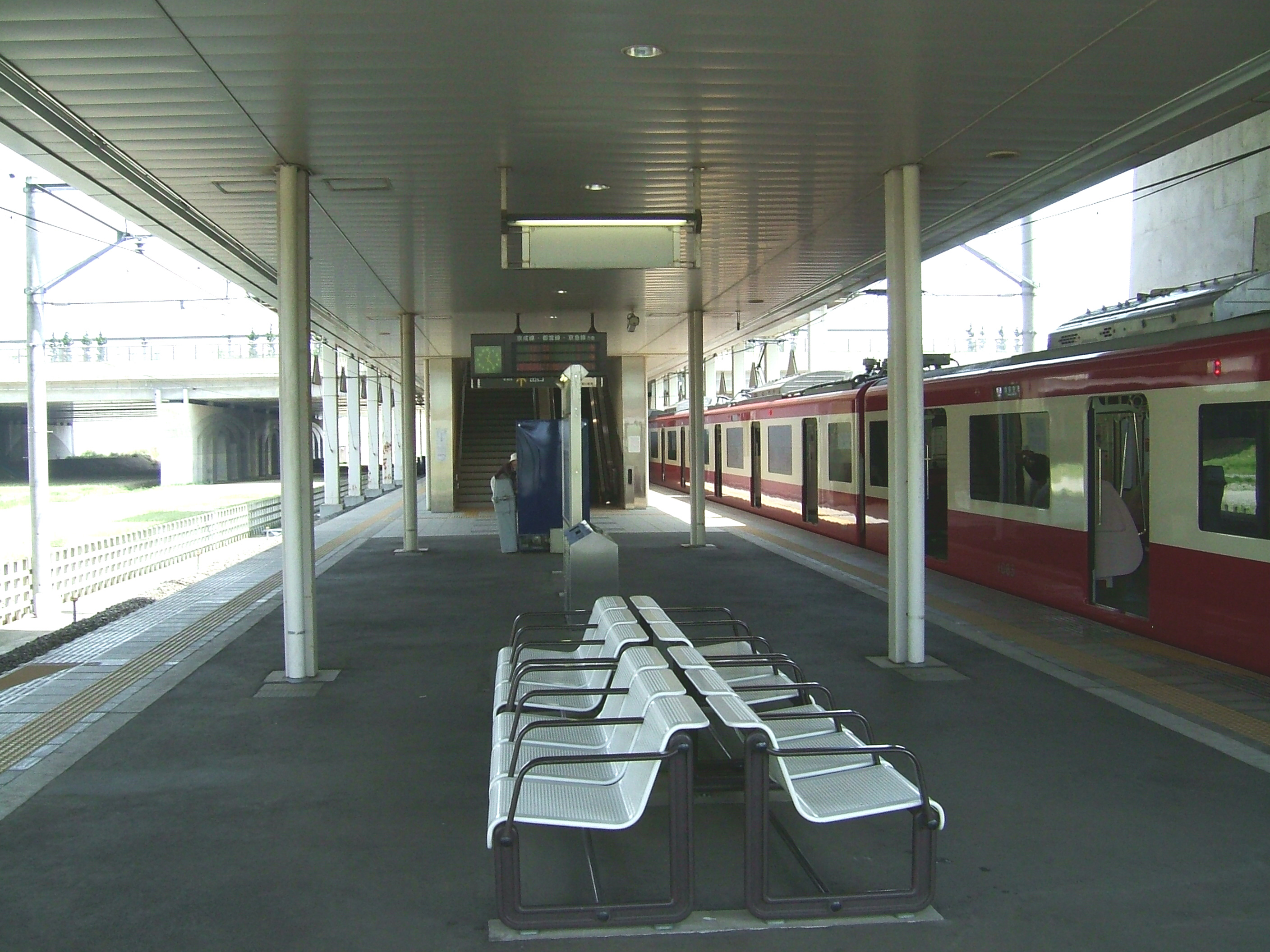 The platform at Inba-Nihon-Idai Station, Hokuso Line